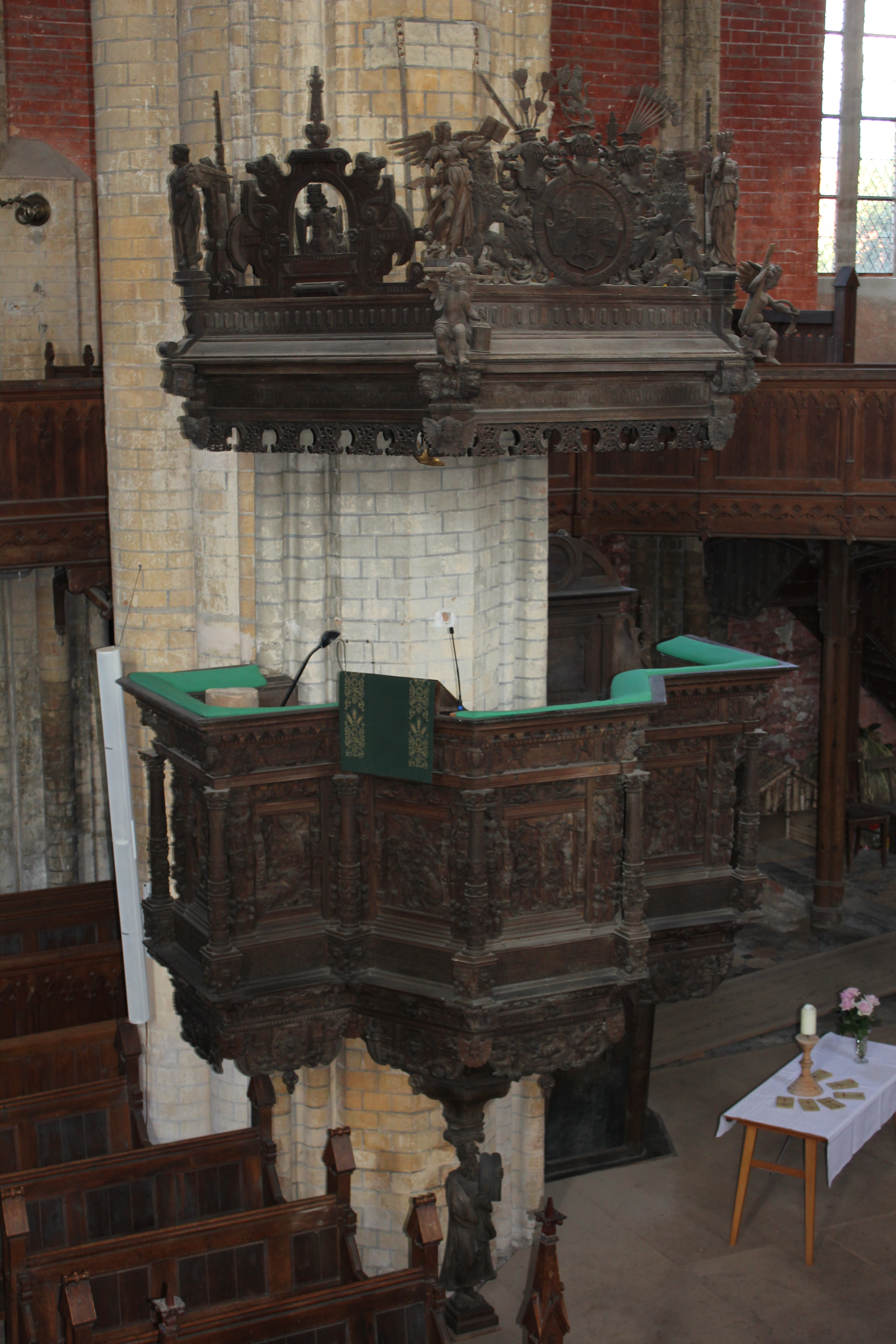 The pulpit of the Stiftskirche Bützow